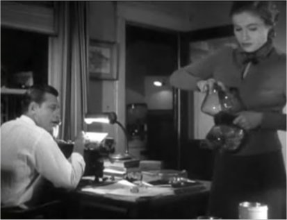 Screenshot taken by me (Icea) from the trailer to the movie Sunset Blvd.